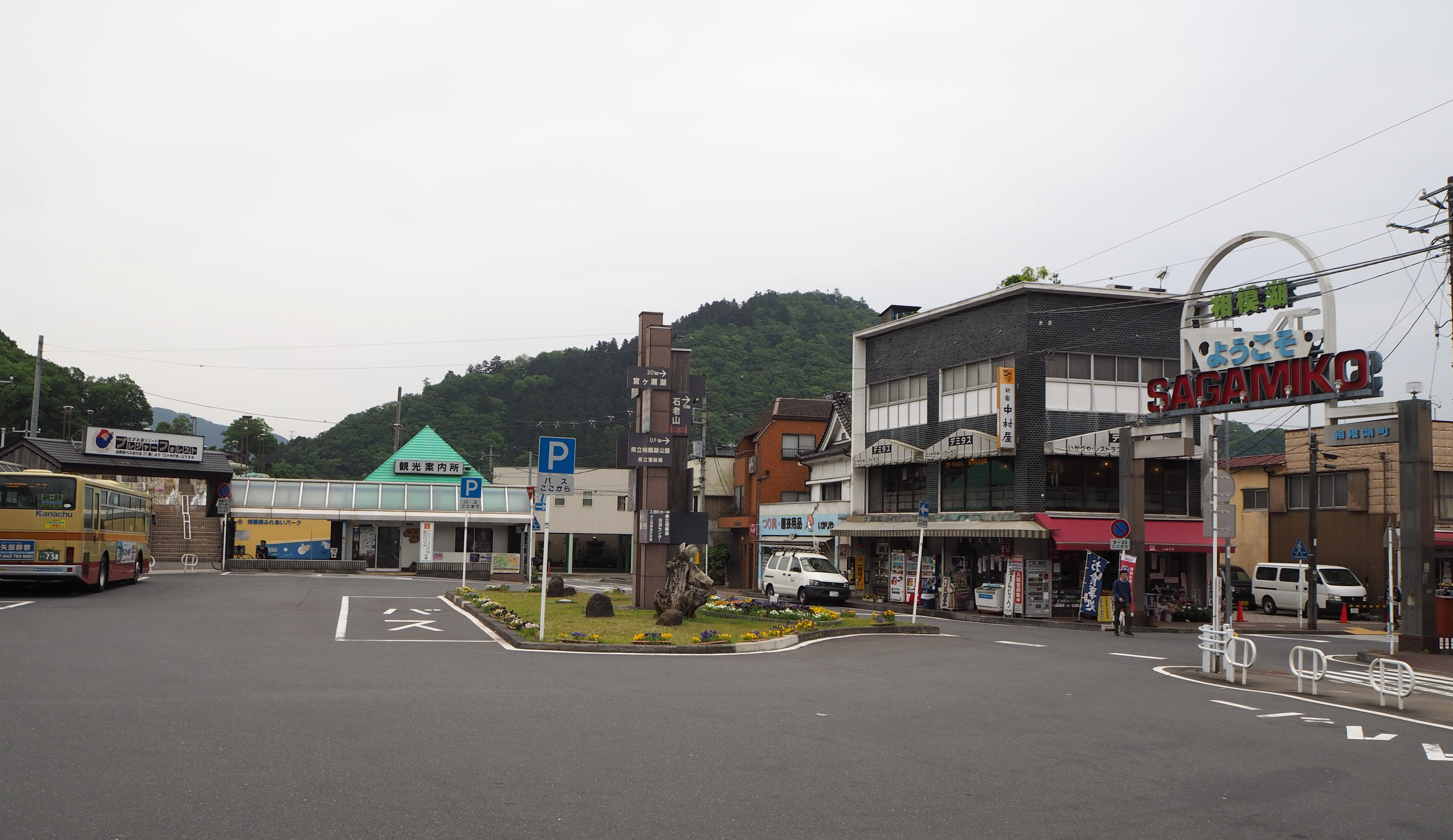 Station square of Sagamiko Station